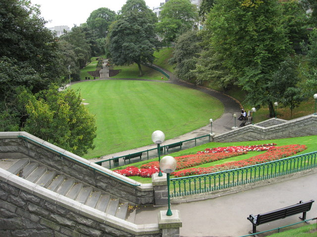 Union Terrace Gardens, Union Terrace, Aberdeen, Scotland.